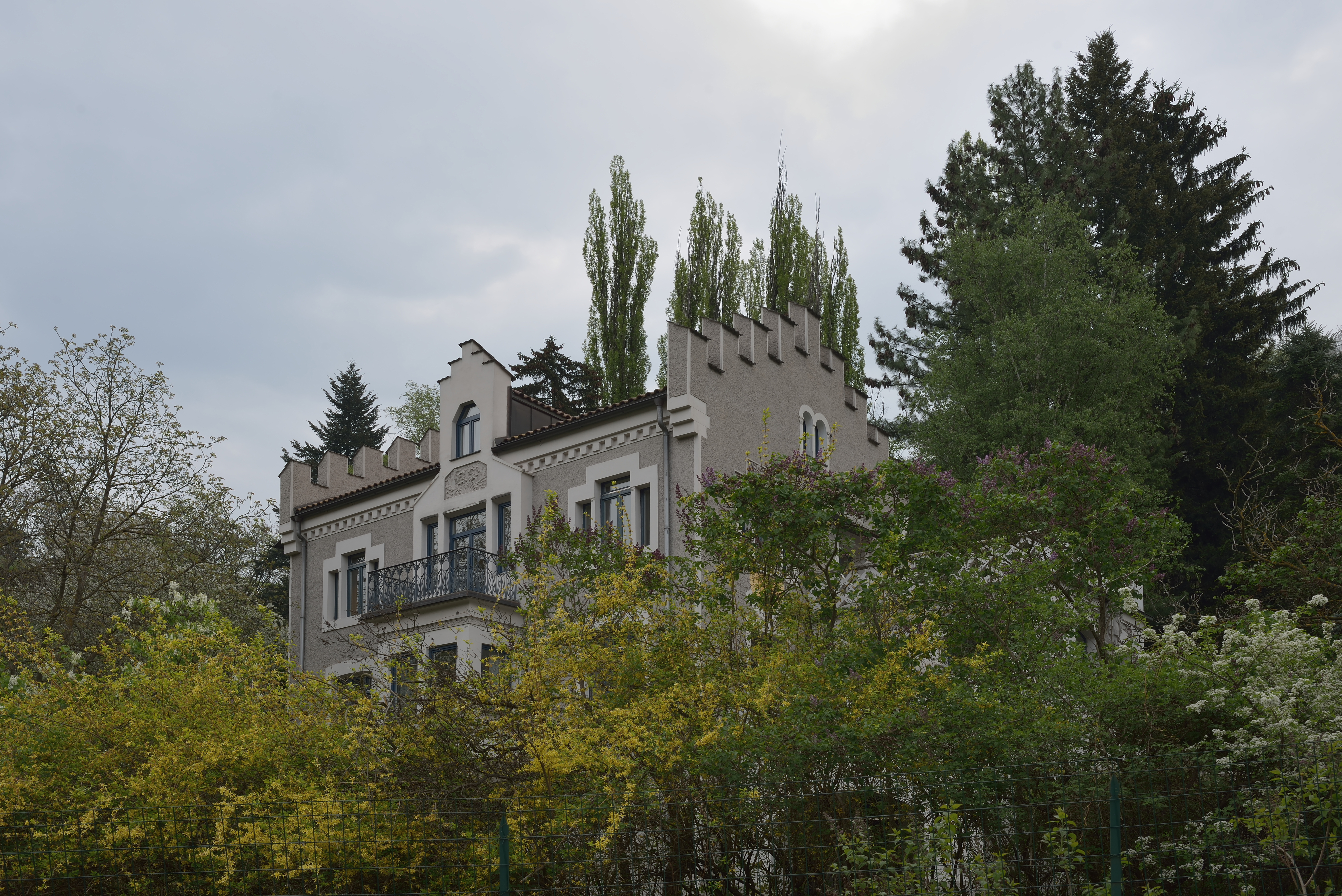 Villa Köster in Klausen South Tyrol